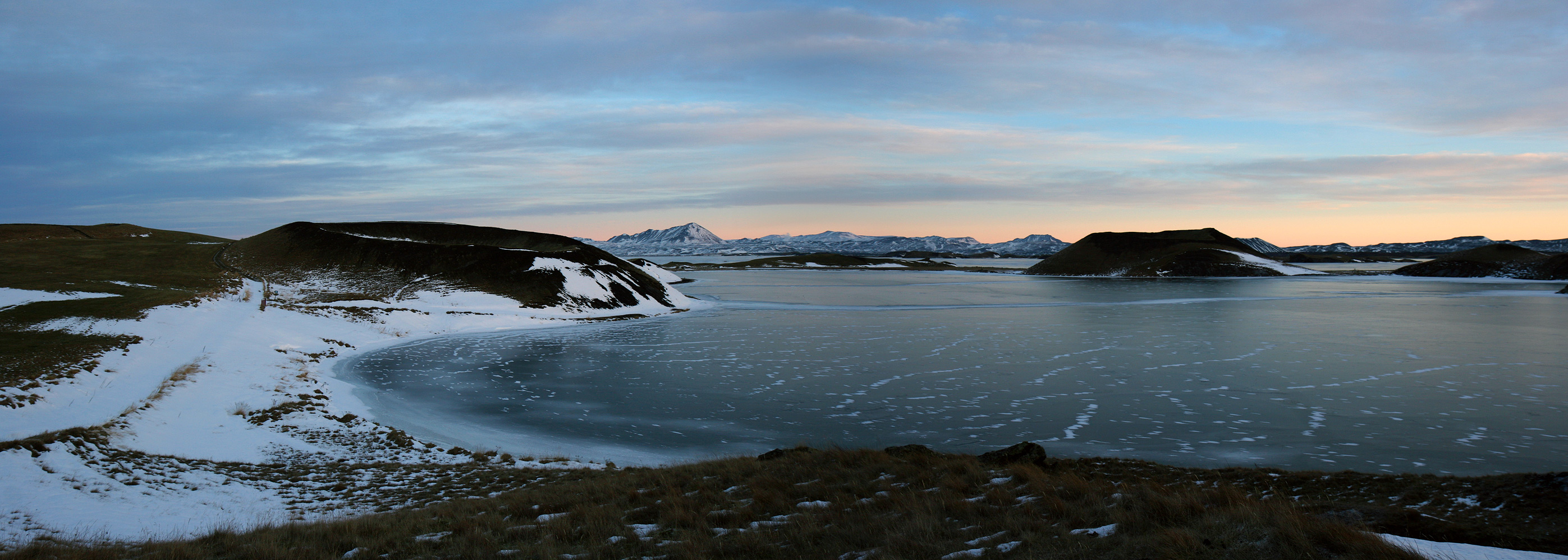 Mývatn, edged with pseudocraters, looking northeast, November 22 11:50 Iceland, November 2007 Photo by me user:debivort (or friend, with permission given to freely license photo).